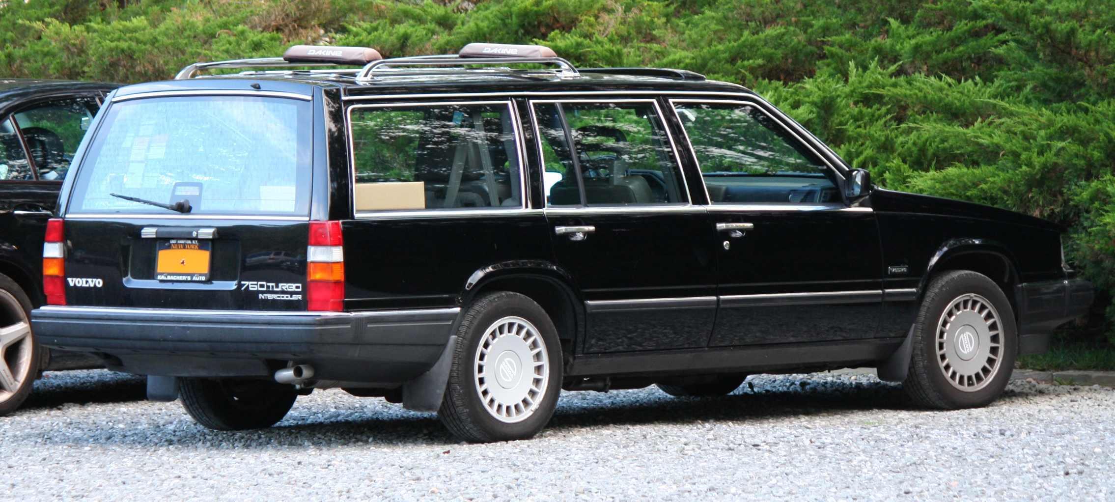 1989 Volvo 760 Estate Wagon Turbo Intercooler, US market version